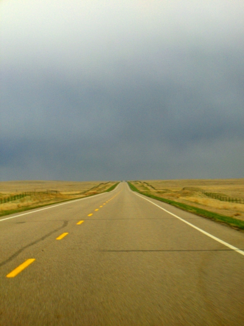 Long straight road stretching into the distance